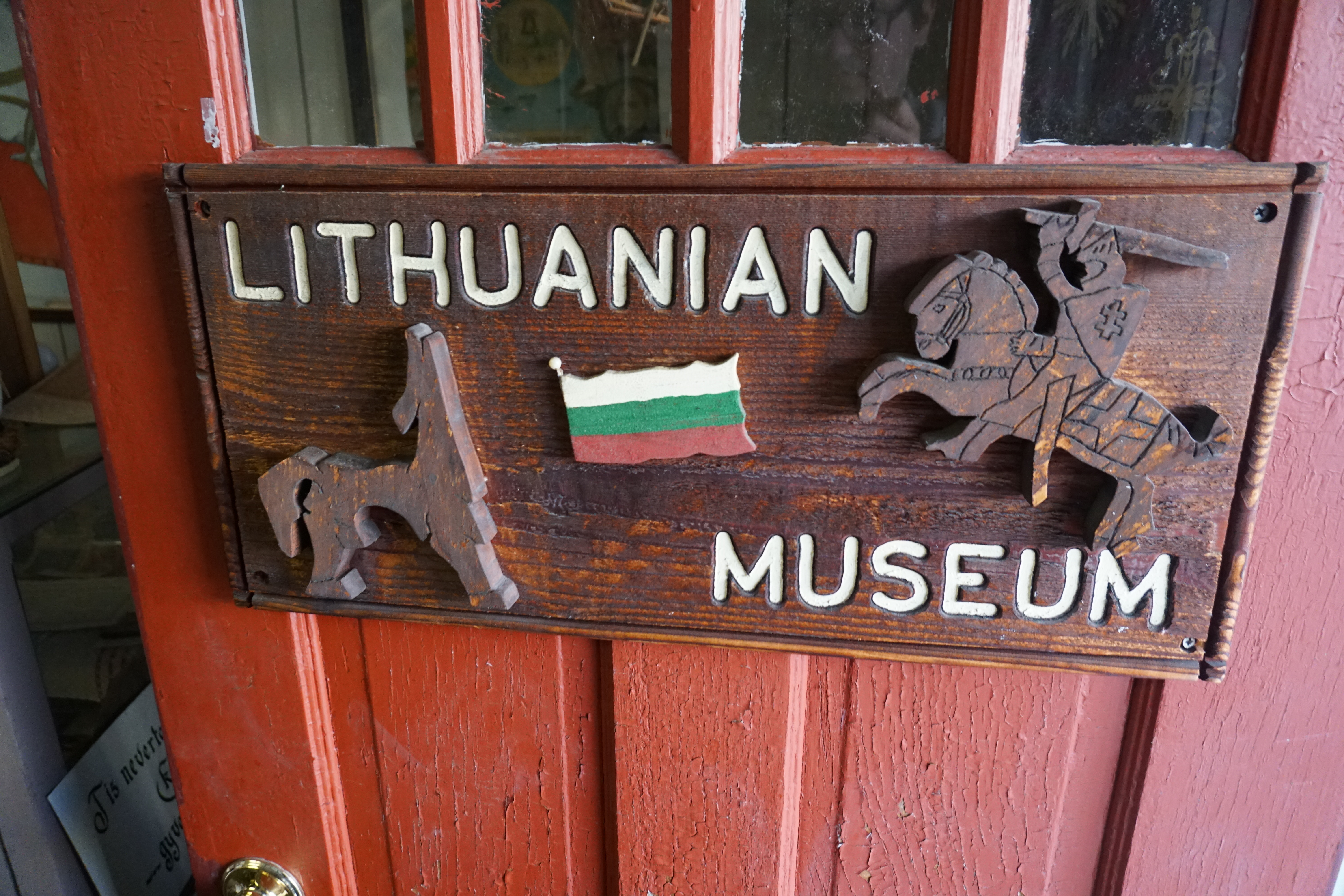 Frackville Lithuanian museum entrance plaque (image made during the "Destination - America" mission to be used on the map)